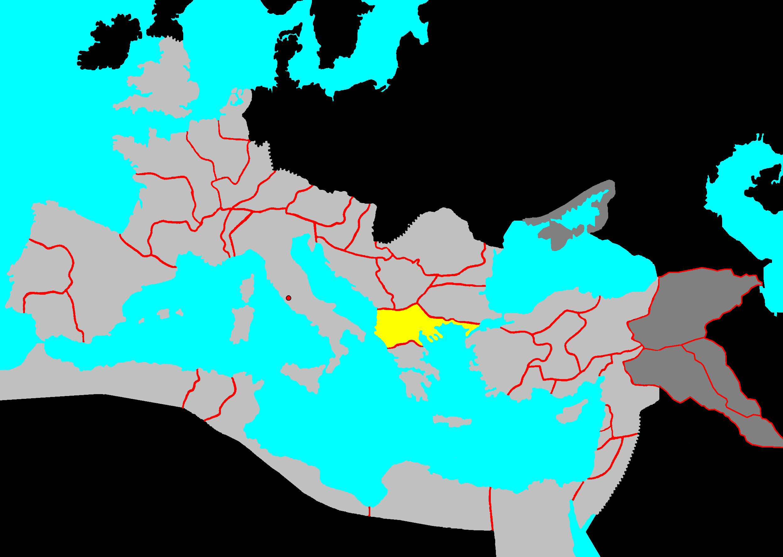 Description: provinces of the Roman Empire (Imperium Romanum) Source: own work Date: December 2005 Author: --Immanuel Giel 12:48, 13 December 2005 (UTC) Other versions: none